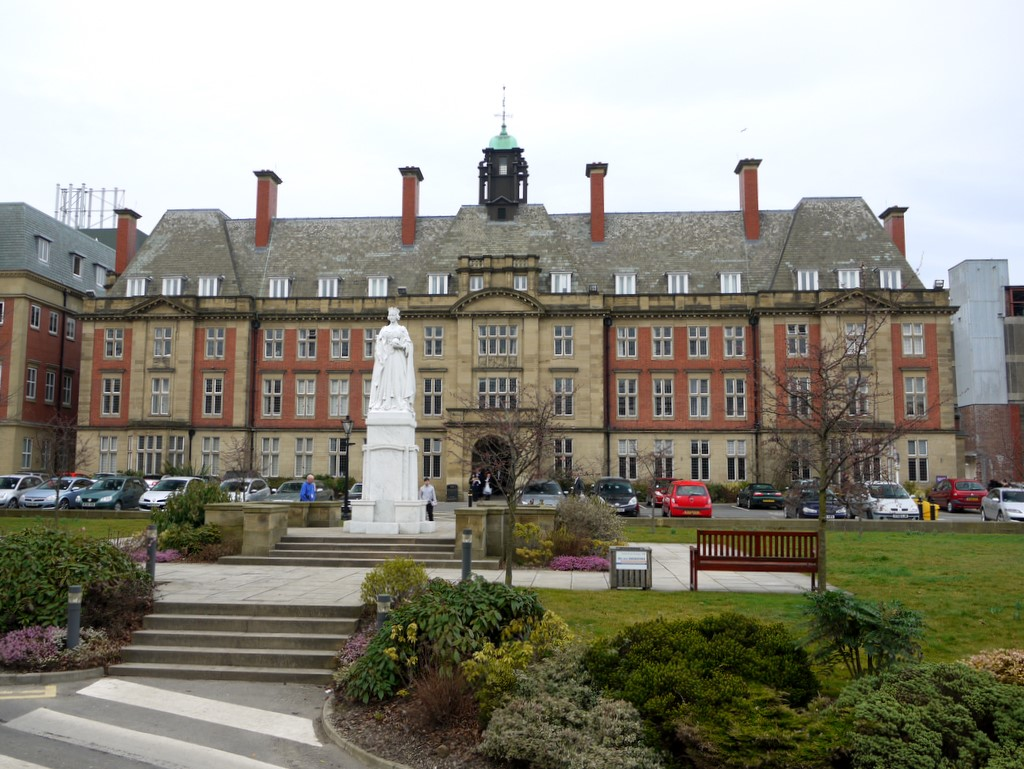 Peacock Hall, Royal Victoria Infirmary The RVI was built 1900-06, designed by W.L. Newcombe & Percy Adams. The white marble statue of the young Queen Victoria is by George Frampton, 1906.